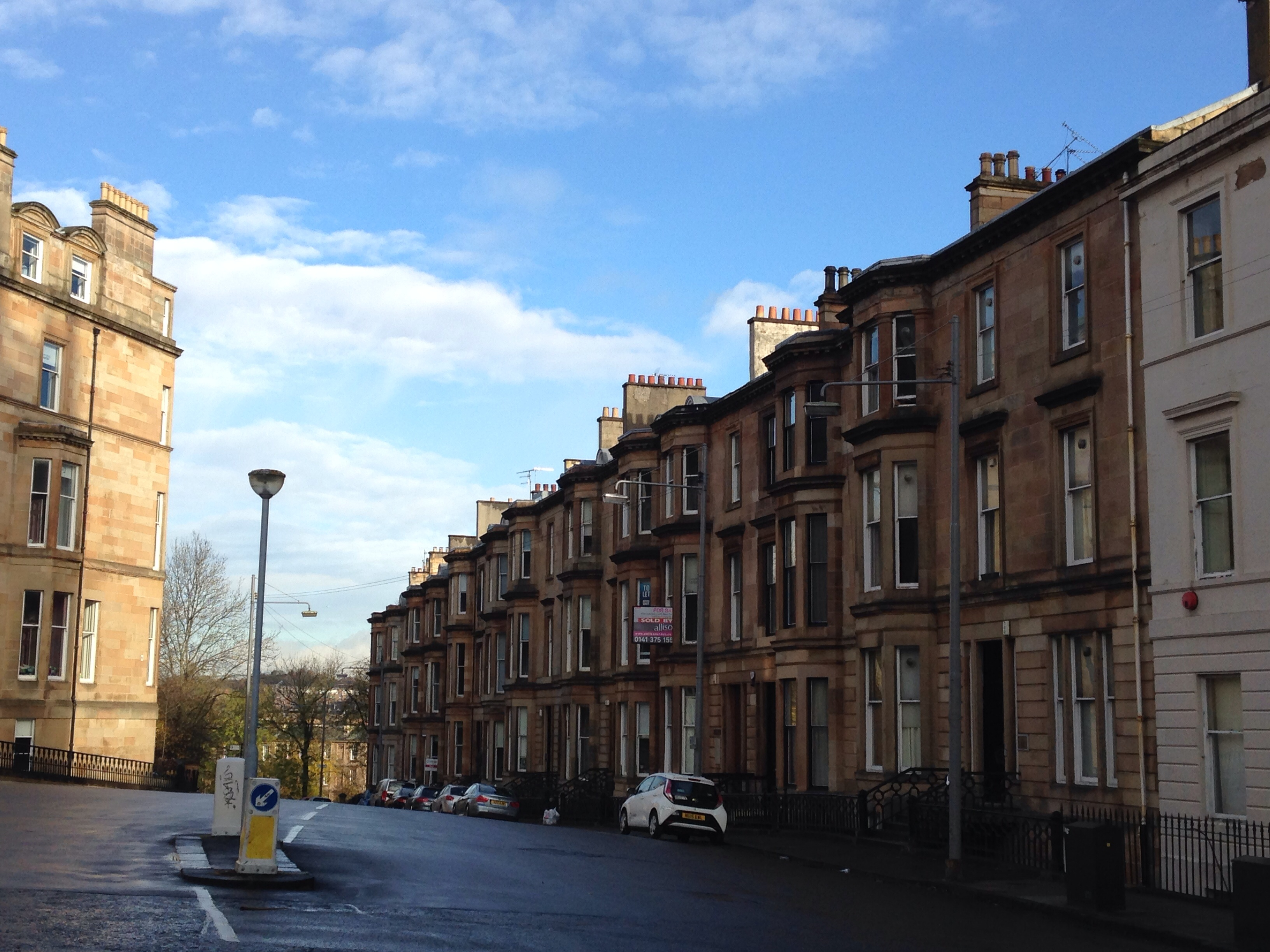 The Category B listed LB32222 1-12 (INCLUSIVE NOS) LYNEDOCH PLACE in Glasgow.